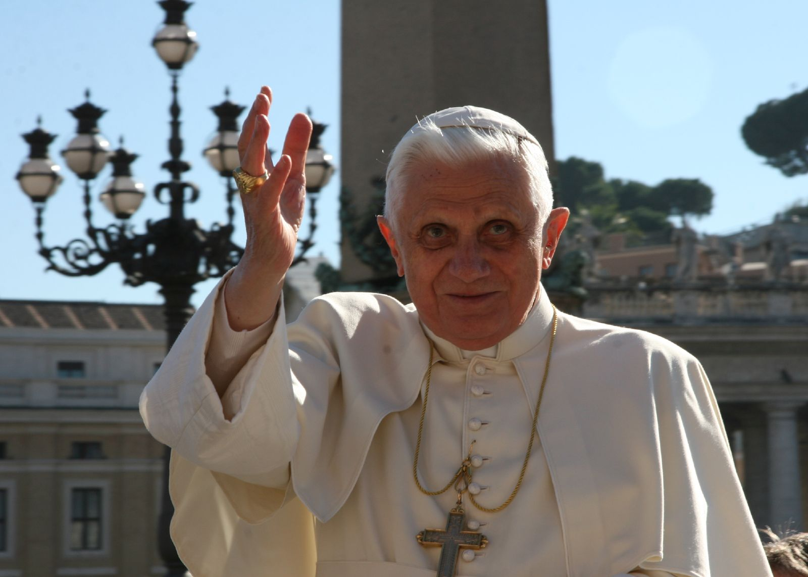 Pope Benedict XVI at Wednesday's Papal Audience in Rom. Yep, no kidding I was THAT close - this is taken with a regular short lens at Wednesday's Papal Audience. I'm still reeling!!!